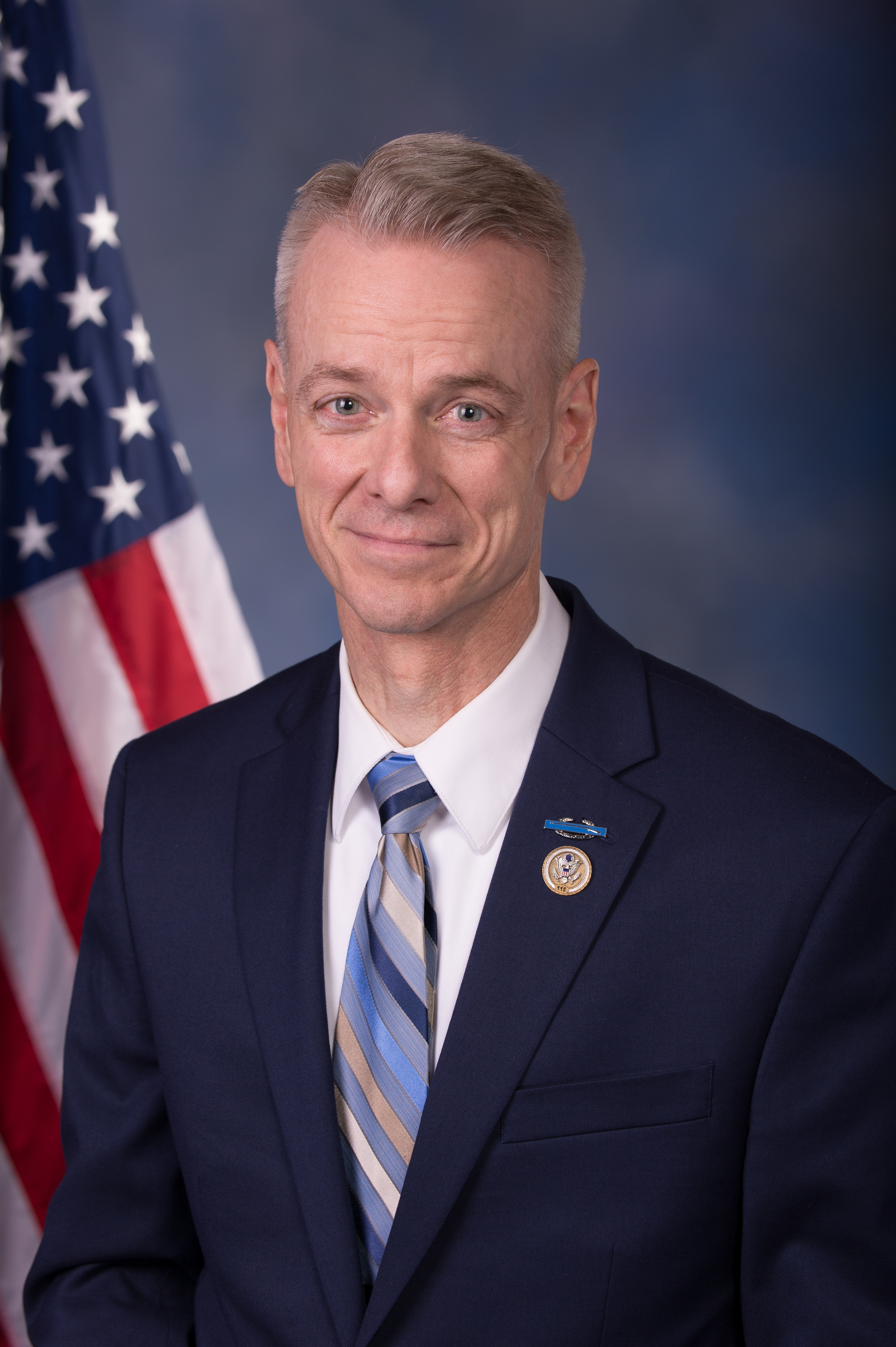 Steve Russell 115th Congress official photo